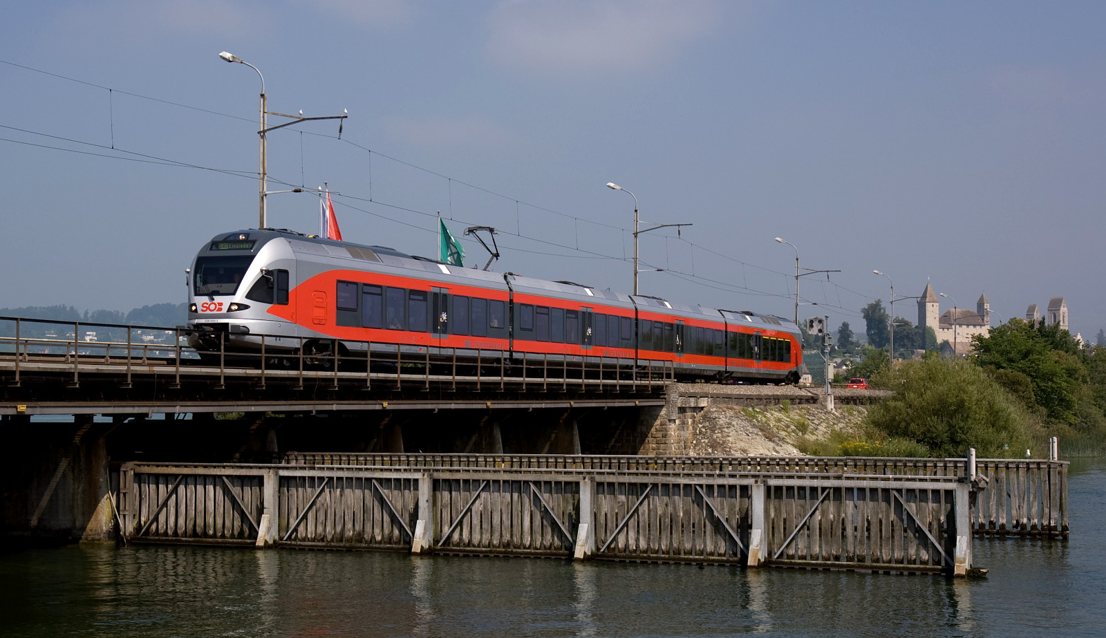 94 85 7 526 044-3 CH-SOB (SOB RABe 526 044): FLIRT in Südostbahn colours on the dam between Rapperswil and Pfäffikon SZ